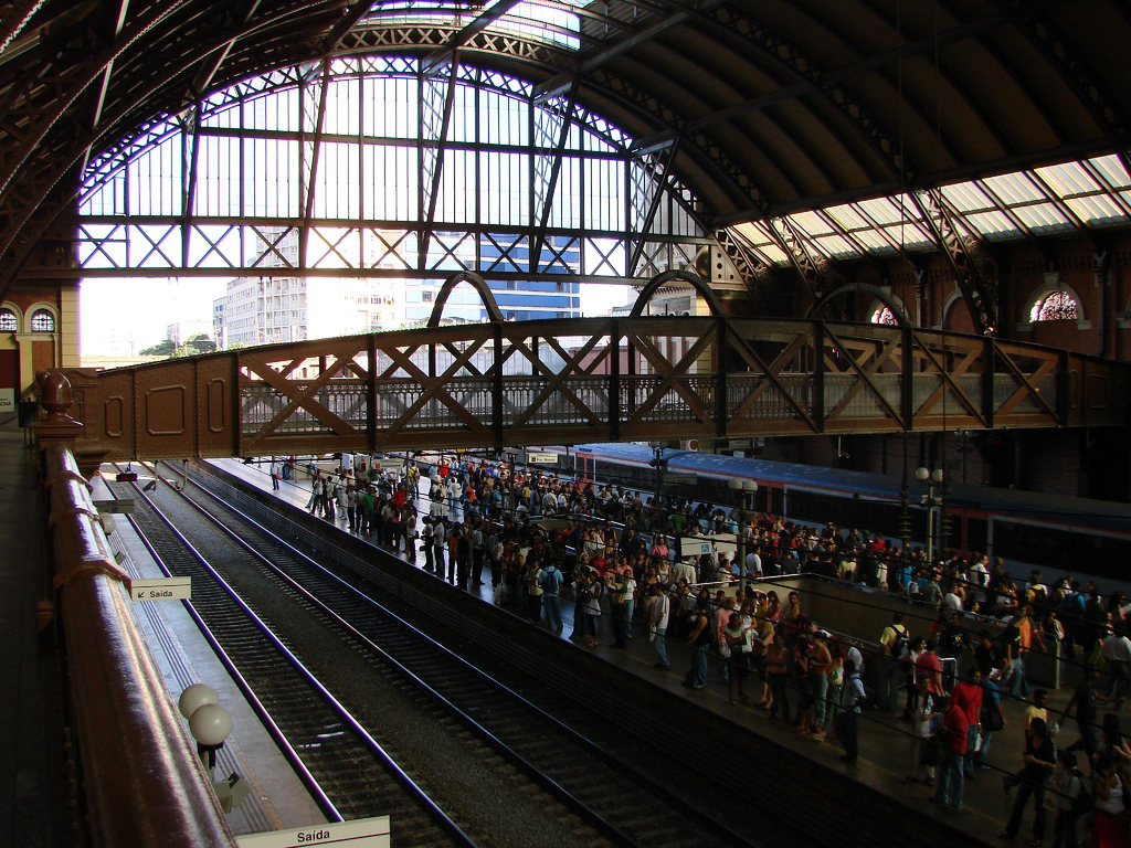 Luz Station.